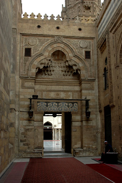 Al-Azhar Mosque. Cairo. Egypt